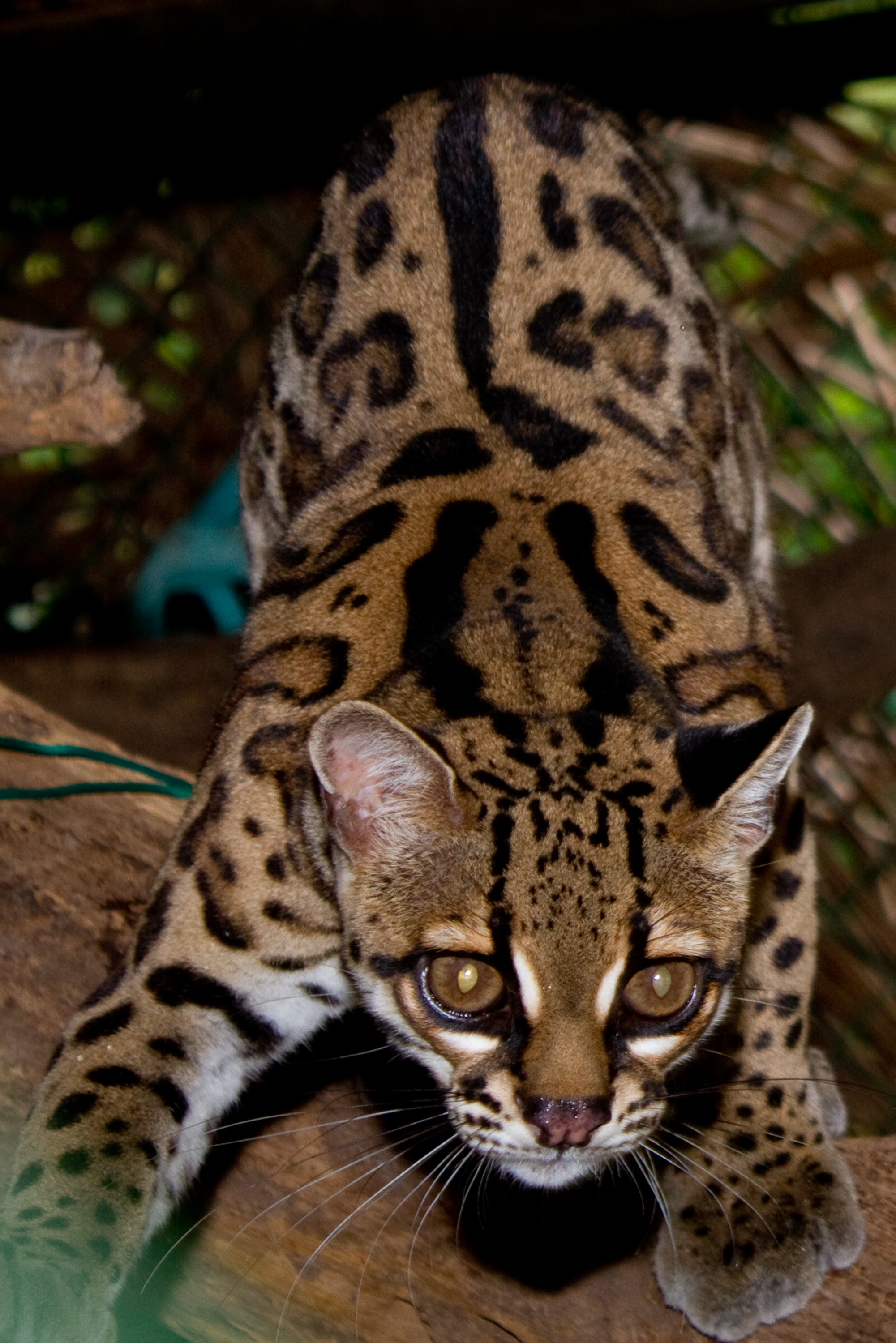 Margay